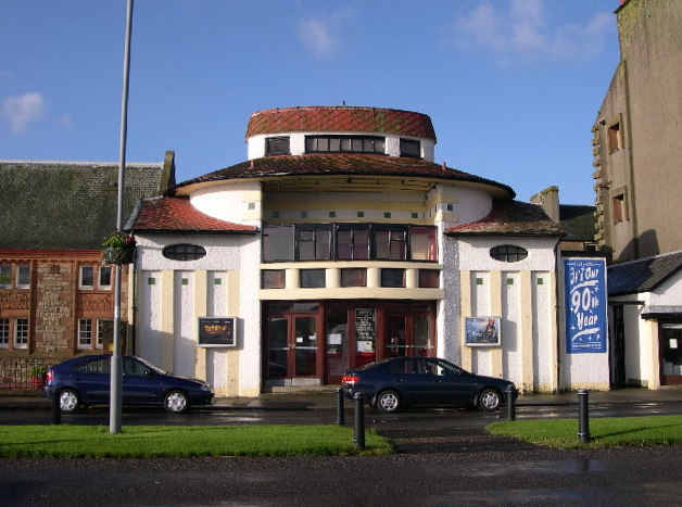 The Wee Picture House, Campbeltown, Kintyre. The oldest-surviving purpose-built cinema in Scotland.